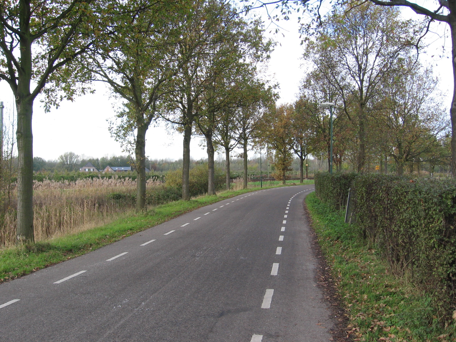 Road towards Houten, the Netherlands.